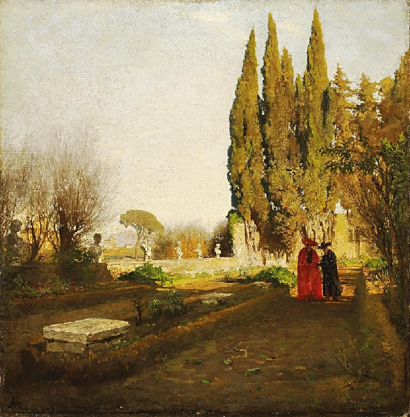 Clergy in dispute.